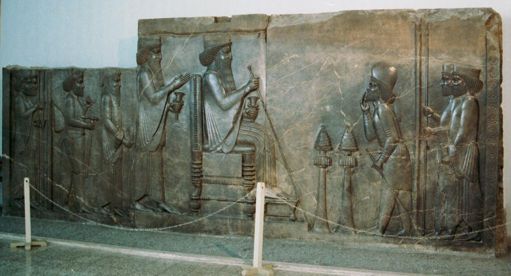 Low-relief from Persepolis, showing a royal audience, probably by Darius. Initially placed at the center of the stairs of the Apadana, it was later moved to the Treasury, where another strictly similar relief is still in situ. National Museum; Tehran, Iran.